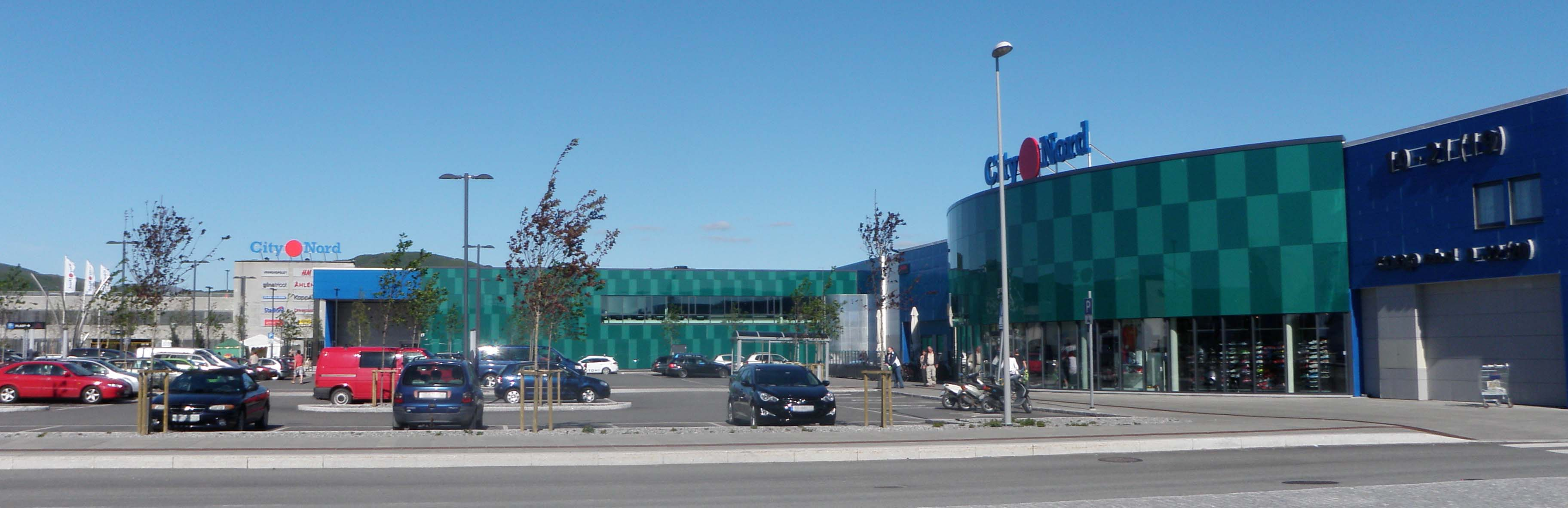 The shopping centre City Nord in Bodø, Nordland, Norway.